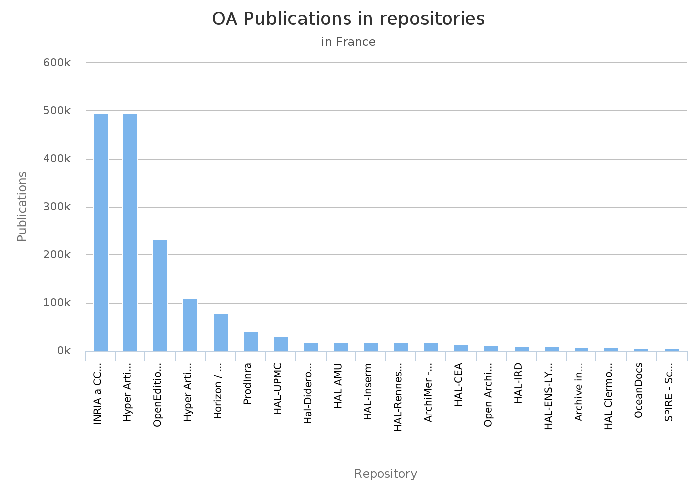 Bar graph describing open access to scholarly communication in France